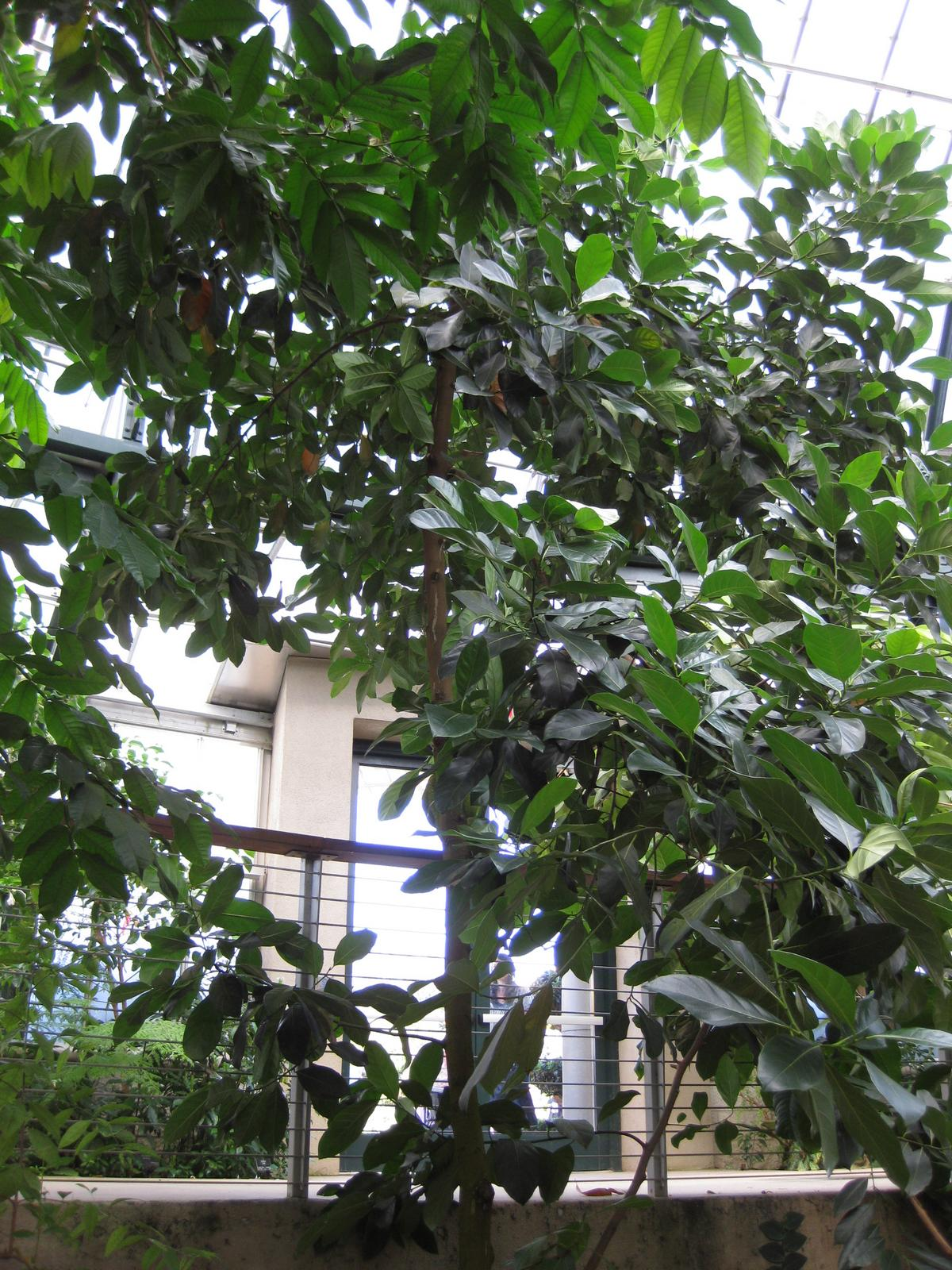 Photographed at Huntington Gardens (Los Angeles) in October